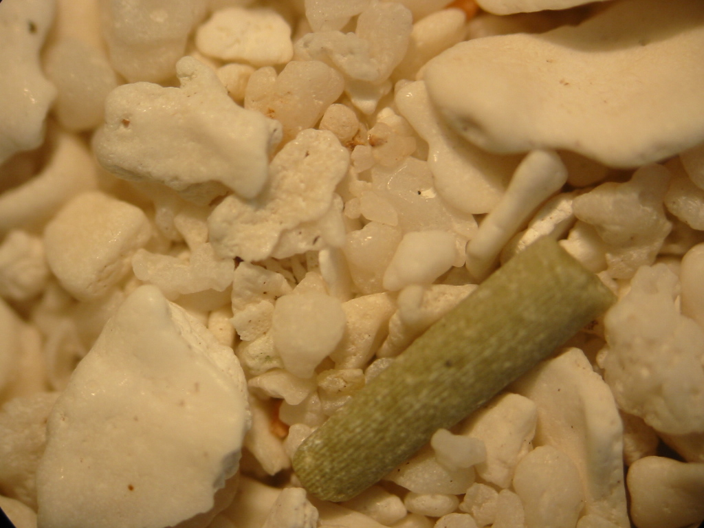 Sand from Dhiggiri, Vaavu atoll, Maldives Made with Canon A40 PowerShot digital camera and Novex AP8 microscope, by Renée Janssen. Magnification: The green spine of a sea urchin featured in the picture is approximately 4 mm in size.